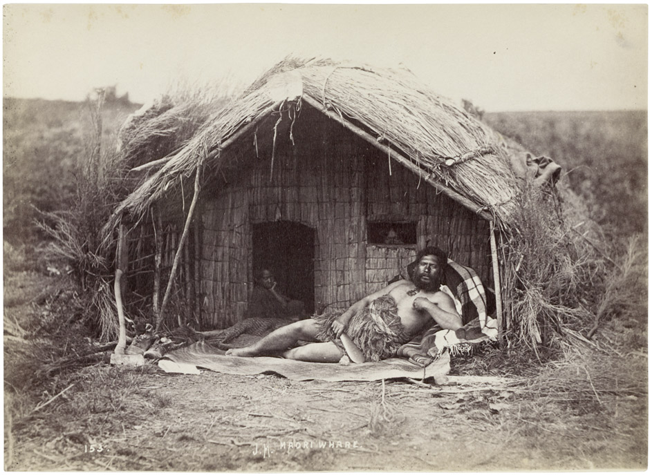 Maori Chief Tahau holding a patu (a stone club), lying in porch of a whare (meething house), New Zealand. Mid 1870s. Albumen print. 15 x 21 cm. Title, photographer's initials and number 153 in lower edge in the neagtive, mounted to board (time-stained in edges), annotated in pencil in lower left corner on mount.